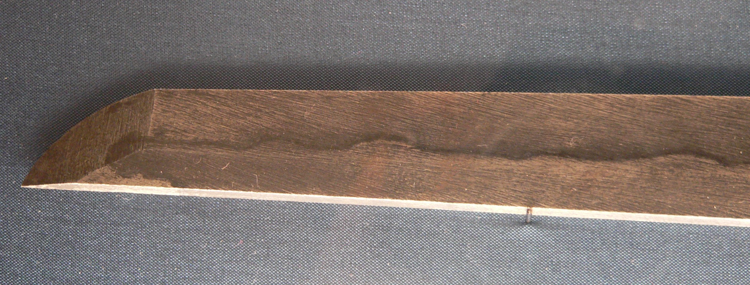 katana blade, before polishing